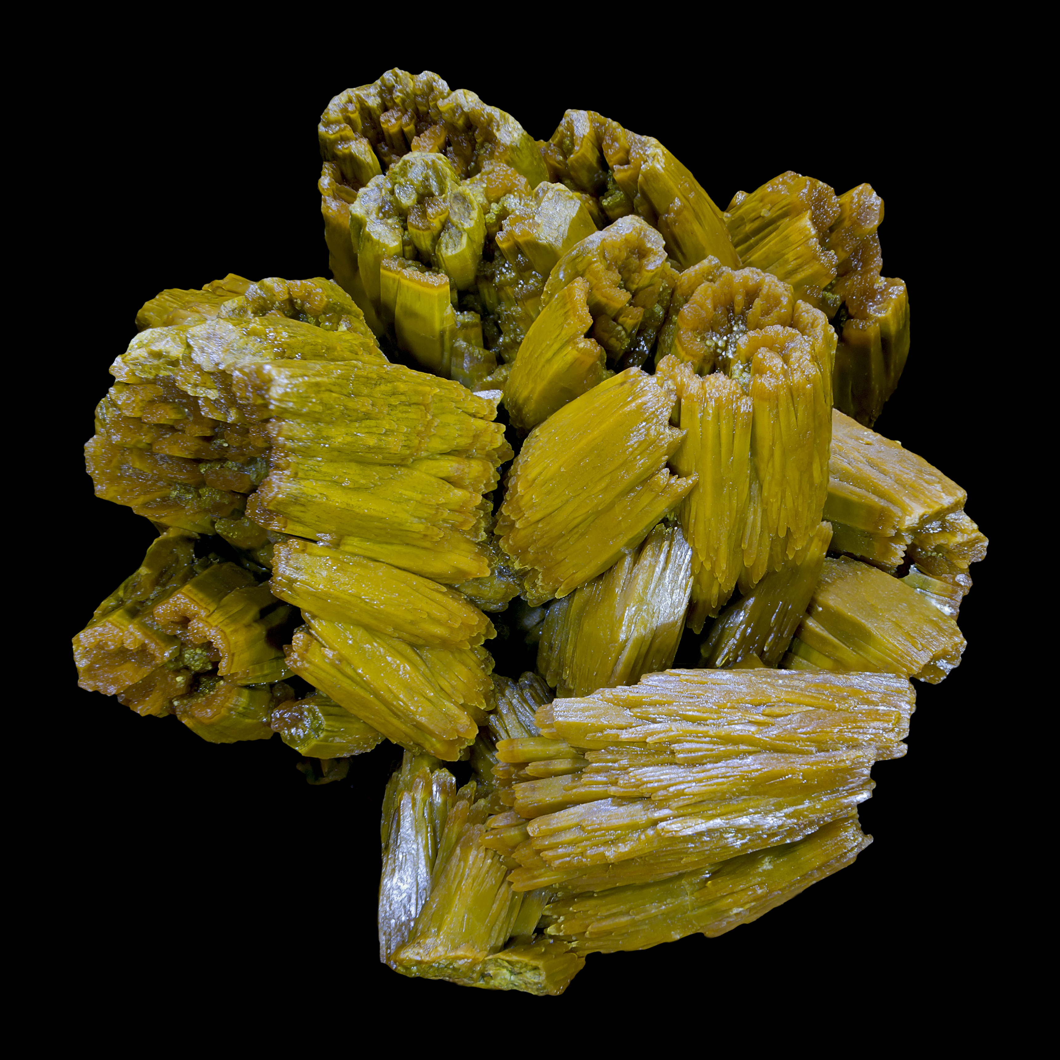 Pyromorphite Locality : Les Farges Mine, Ussel, Corrèze, Limousin, France Size :4 x4x cm